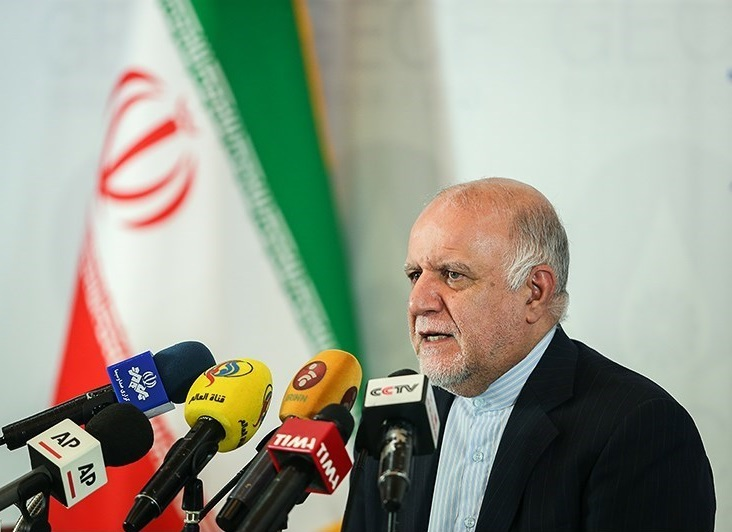 Iranian Petroleum Minister, Bijan Namdar Zanganeh during Third GECF summit